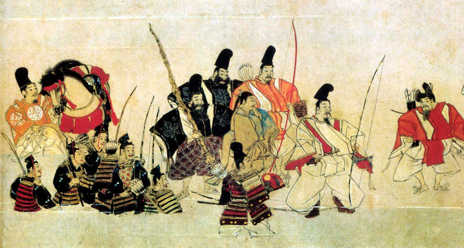 Honen shonin eden - Chion-in version - Imperial Police (kebiishi)